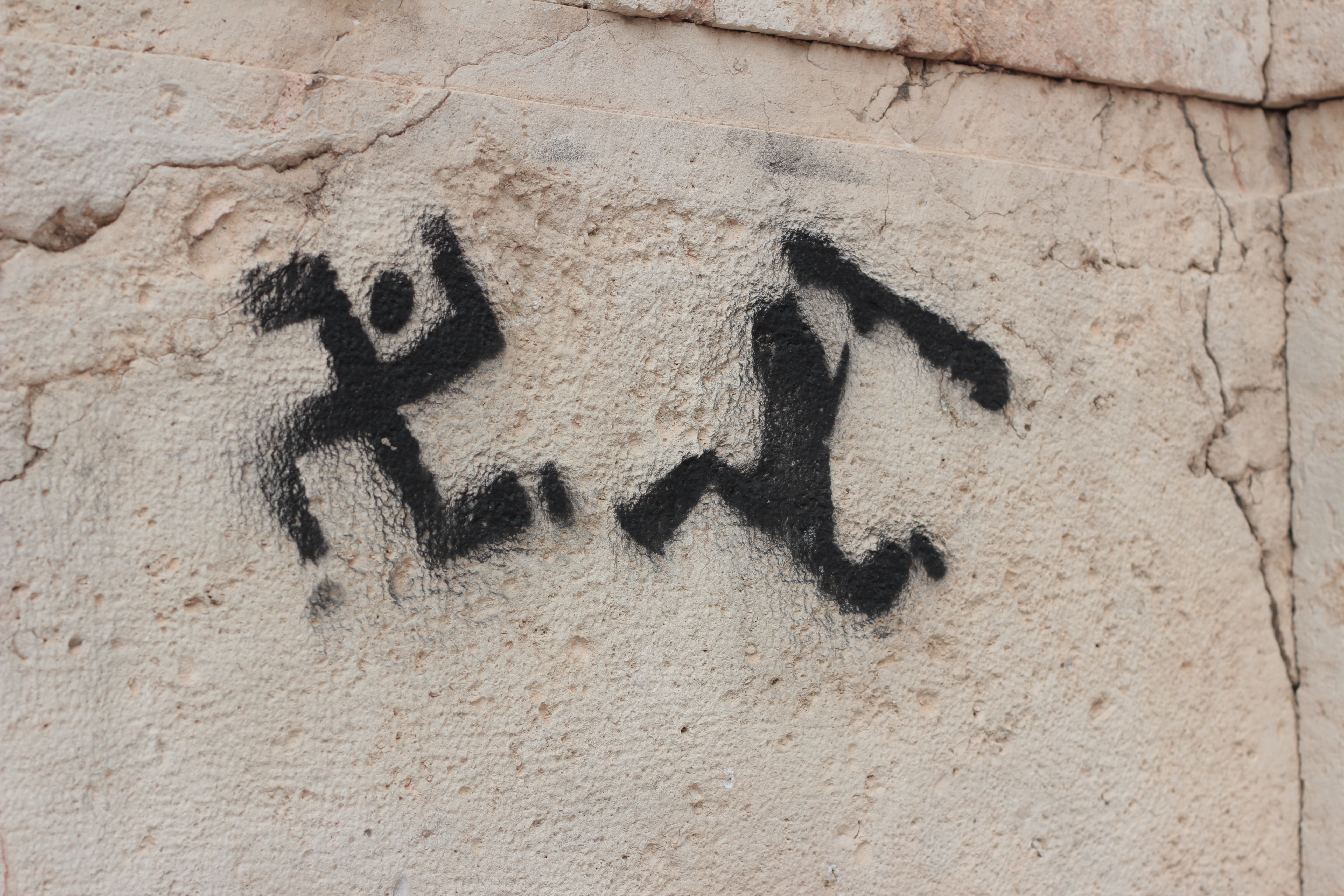 Political anti-nazism and anti-fascism propaganda graffiti in Athens, Greece photographed in 2013, showing a human figure trying to beat up a Nazi Party swastika resembling a running human. Camera lens: Canon EF 50mm f/1.8 II. Not retouched.